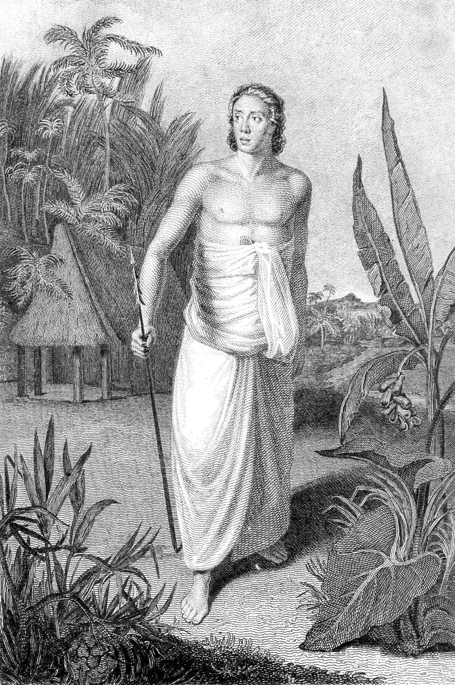 An engraving showing William Mariner in Tongan costume.